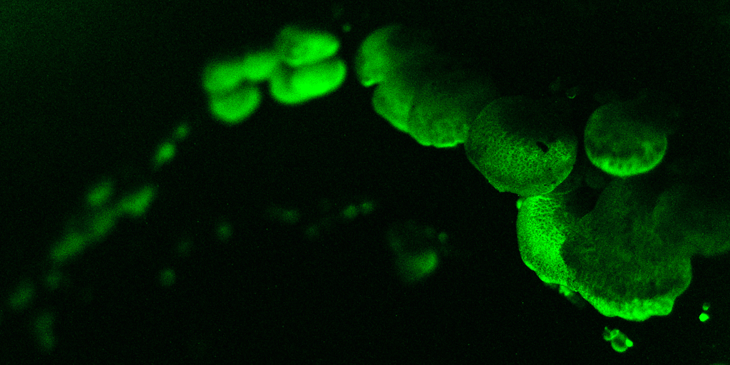 The saprobe Panellus Stipticus displaying bioluminescence.